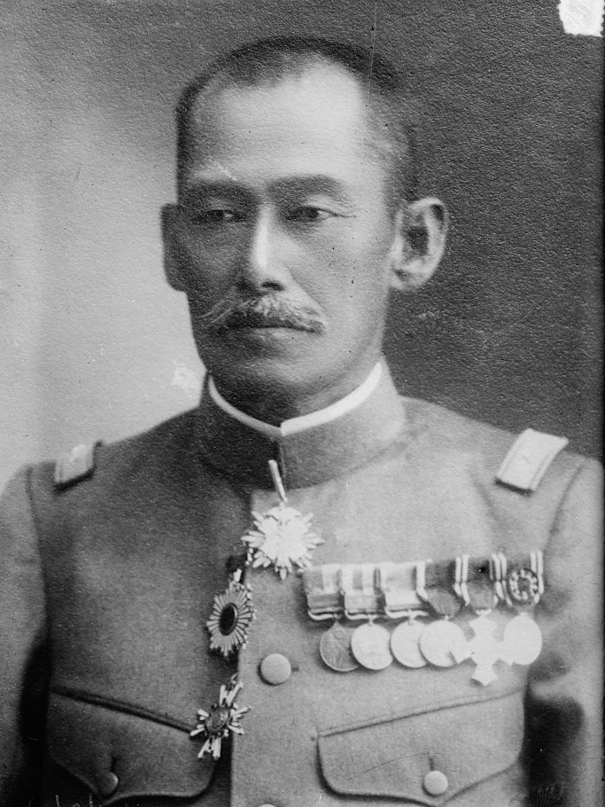 Gen. Oka